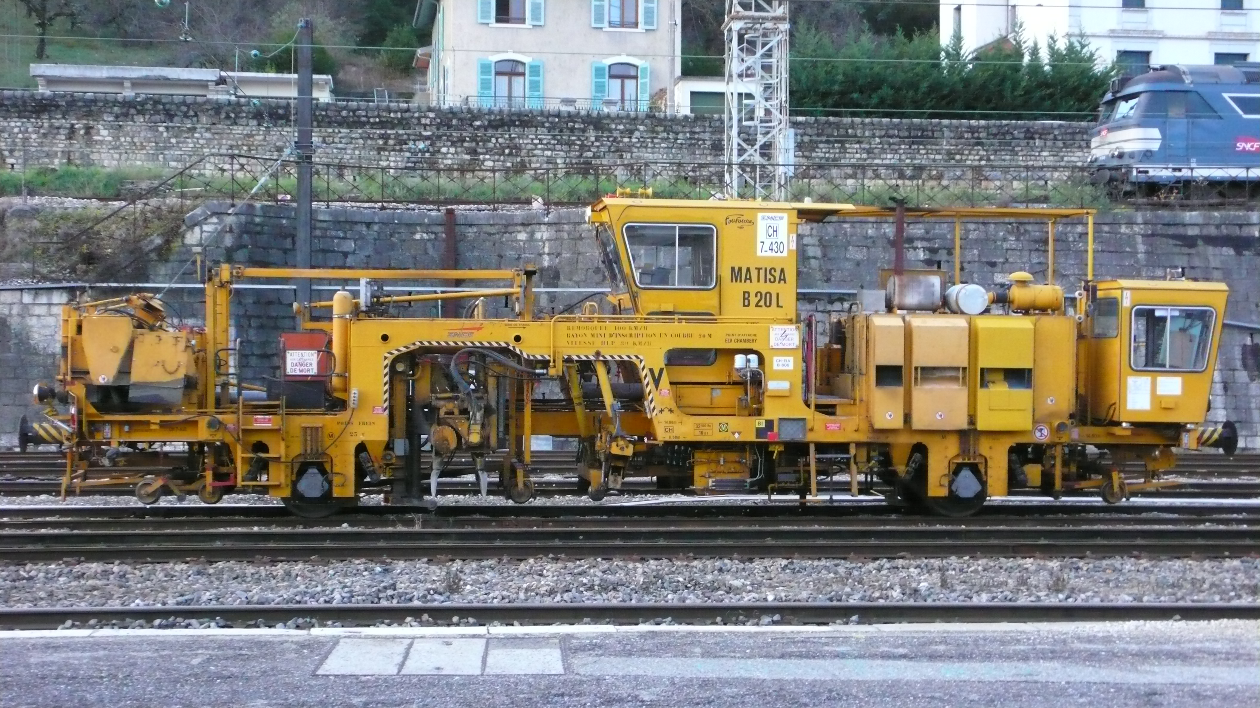 Ballast tampers at Bellegarde